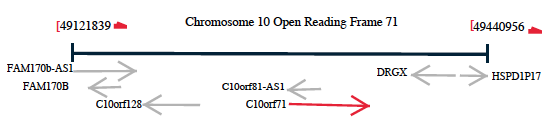 Chromosome 10 layout